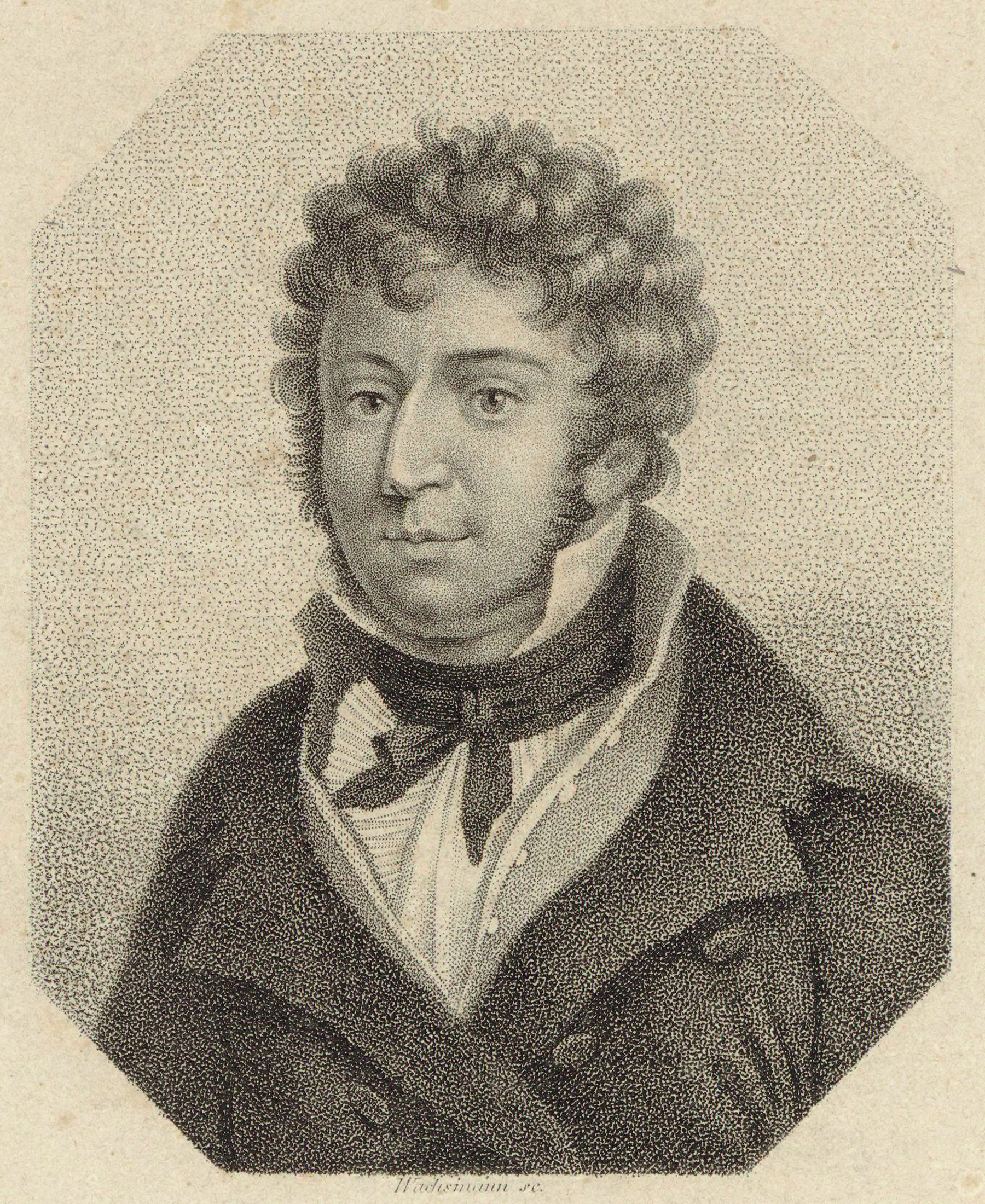 Depicted person: John Field (composer)